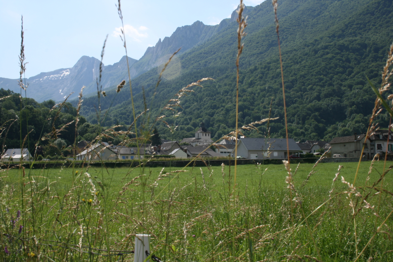 Accous as seen from the north-west.